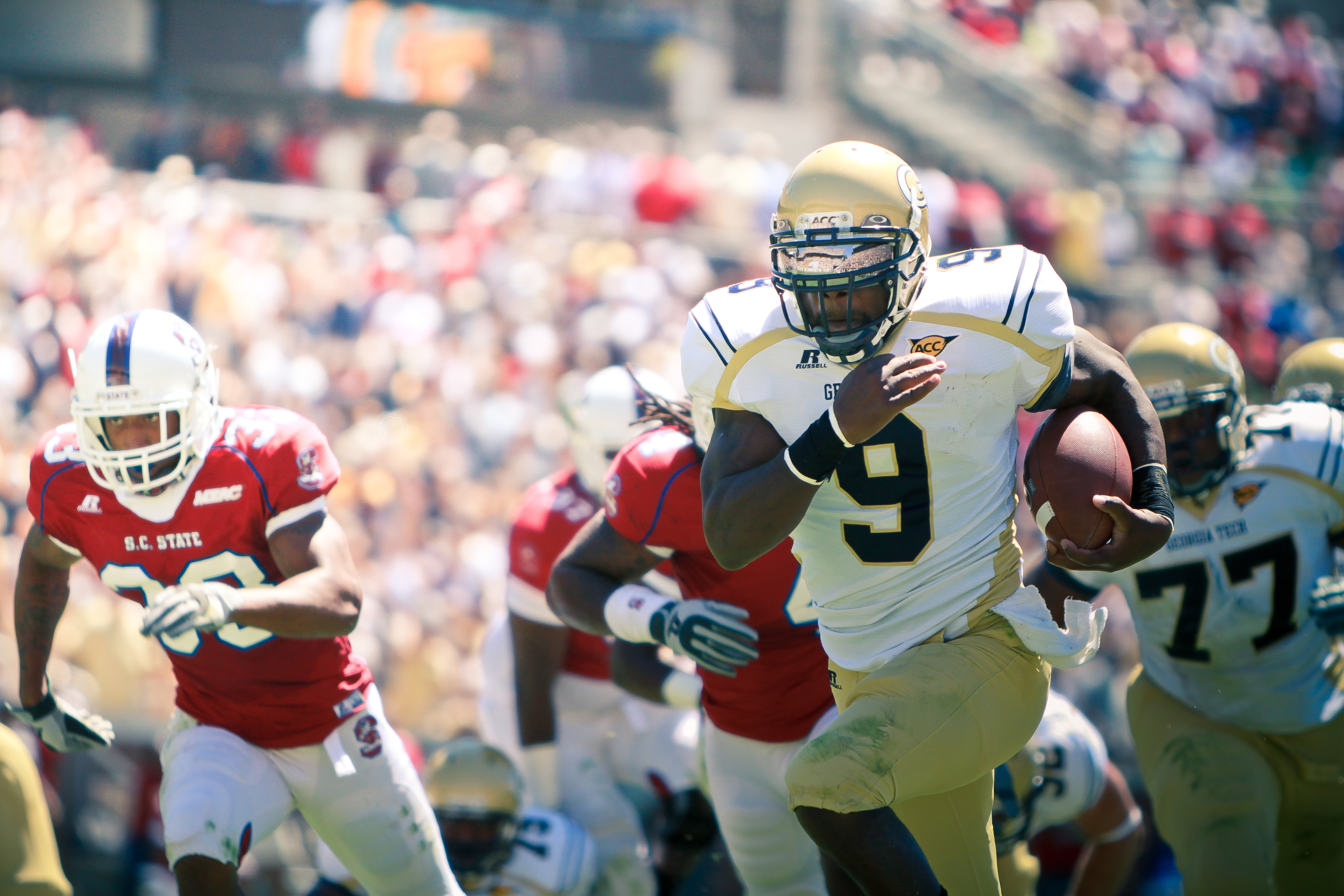 Nesbitt rushing against South Carolina State in 2010.